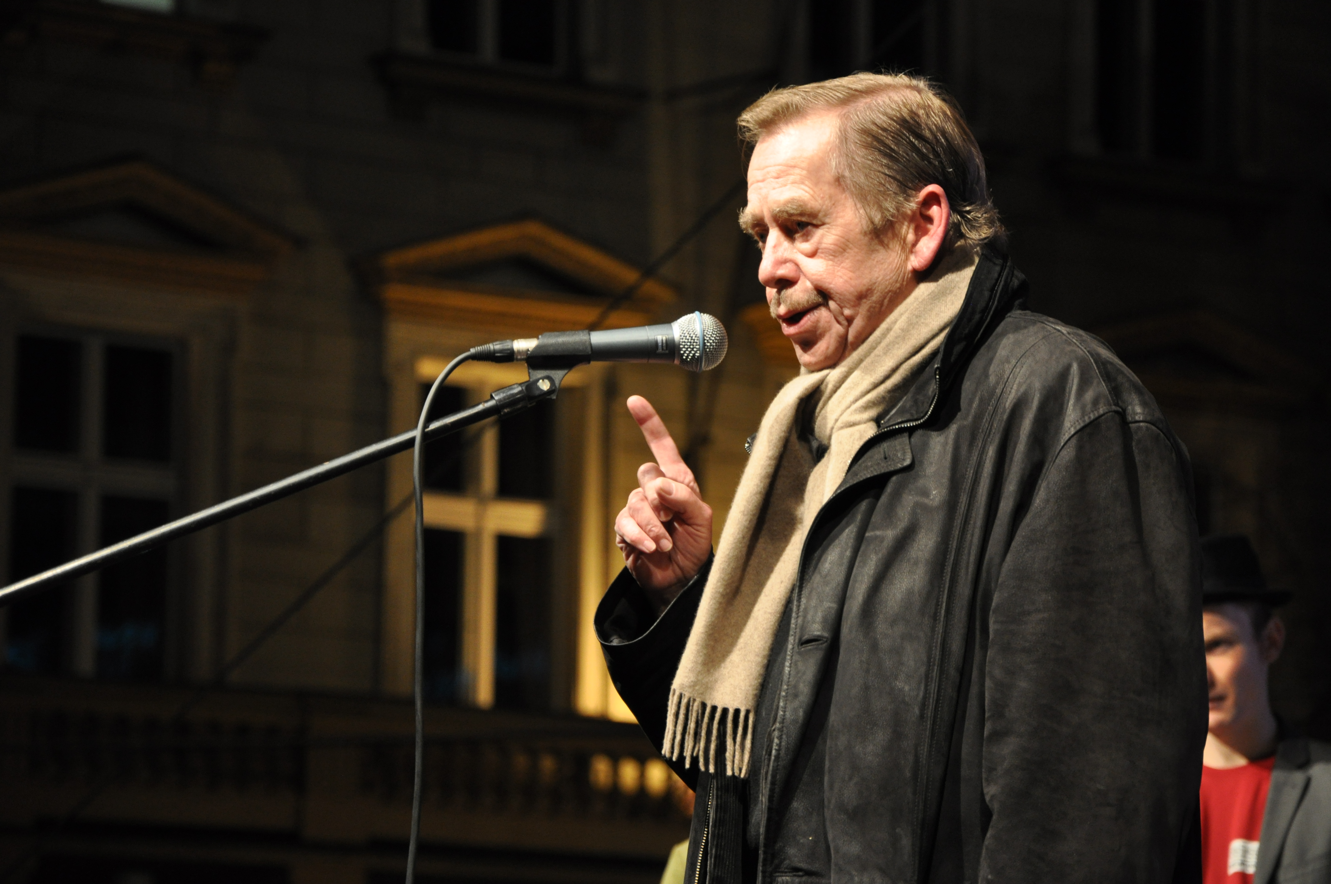 Václav Havel at Wenceslas Square, Prague, 17 November 2009, 20th aniversary of Velvet Revolution